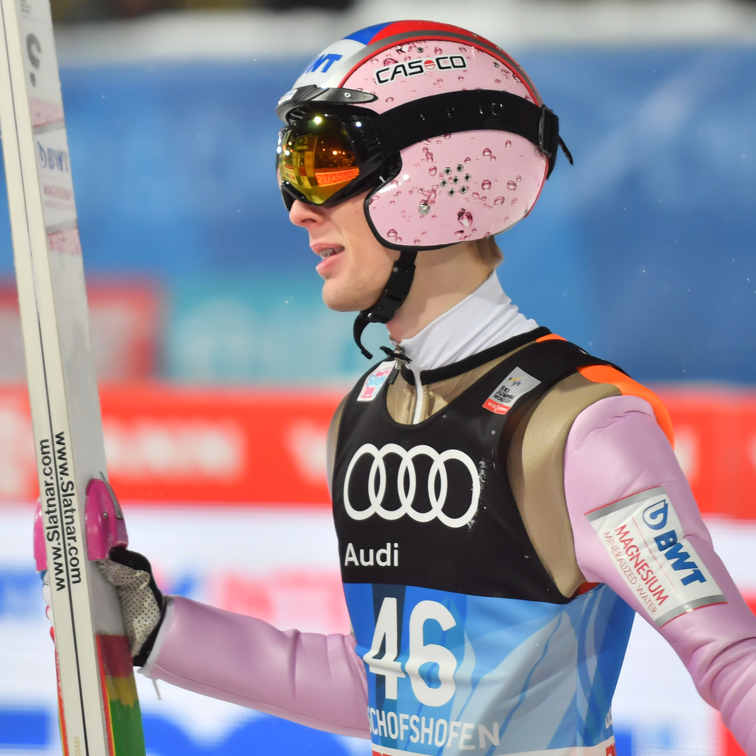 FIS Ski Jumping World Cup, Four Hills Tournament, Bischofshofen 2017.